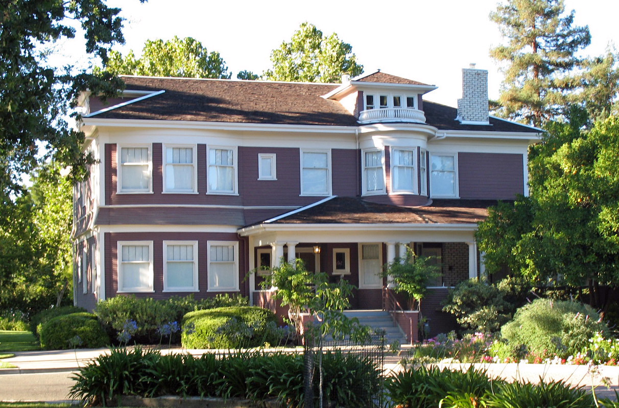 Registered Historic Places in Contra Costa County, California. Shadelands Ranch House, 2660 Ygnacio Valley Rd, Walnut Creek, California, USA. Photographed 2008-08-10 from the driveway to the south of the house.